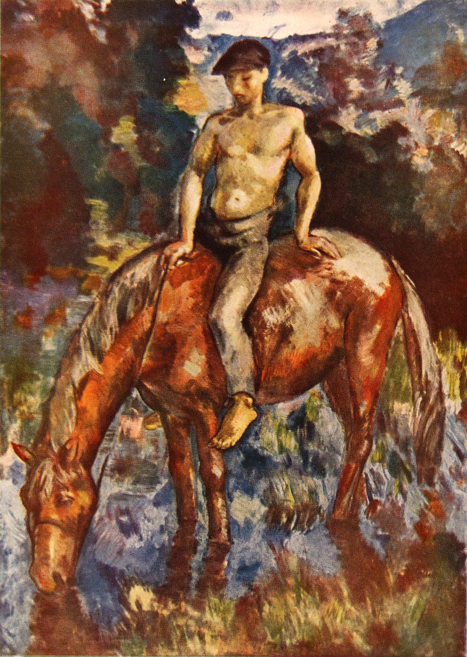 Hevosen juotto (Giving water for horse) by Yrjö Ollila 1919 (145x108cm)